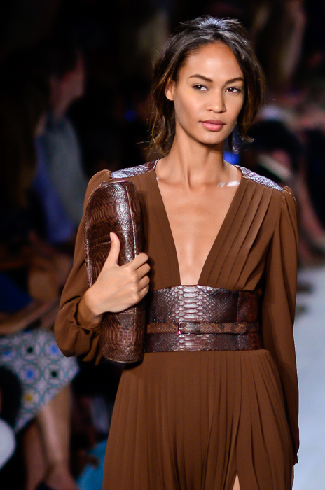 Joan Smalls walks the runway at the Michael Kors Spring/Summer 2014 show at New York Fashion Week, September 2013.